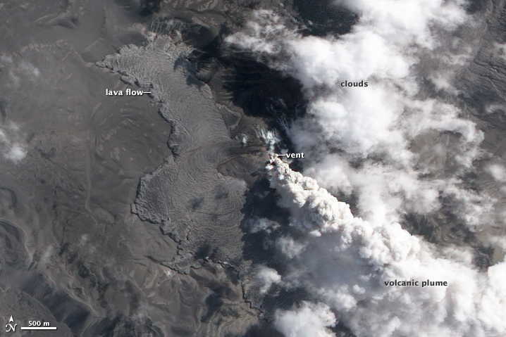 October 9, 2011